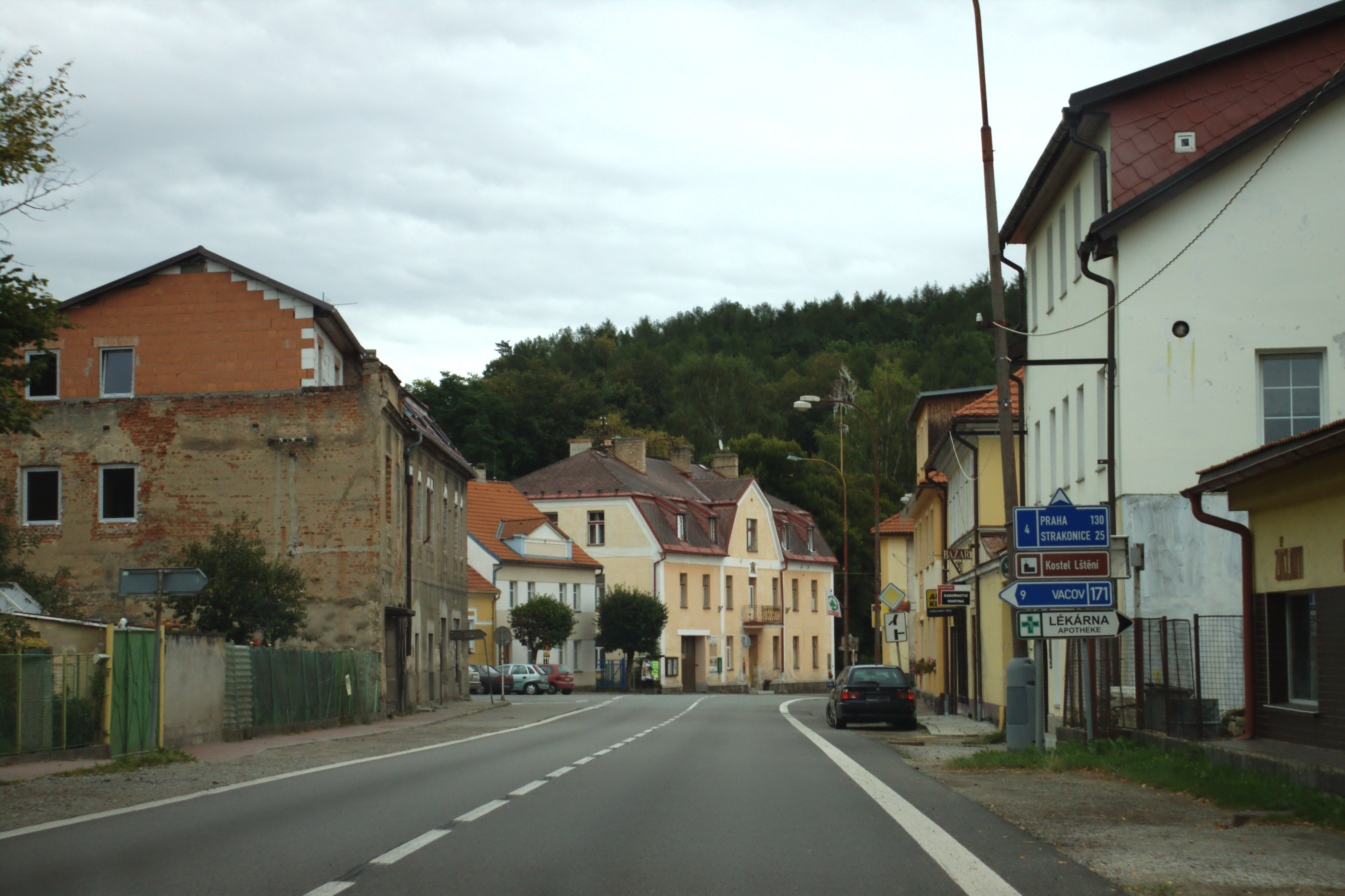 Čkyně, South Bohemian Region, CZ